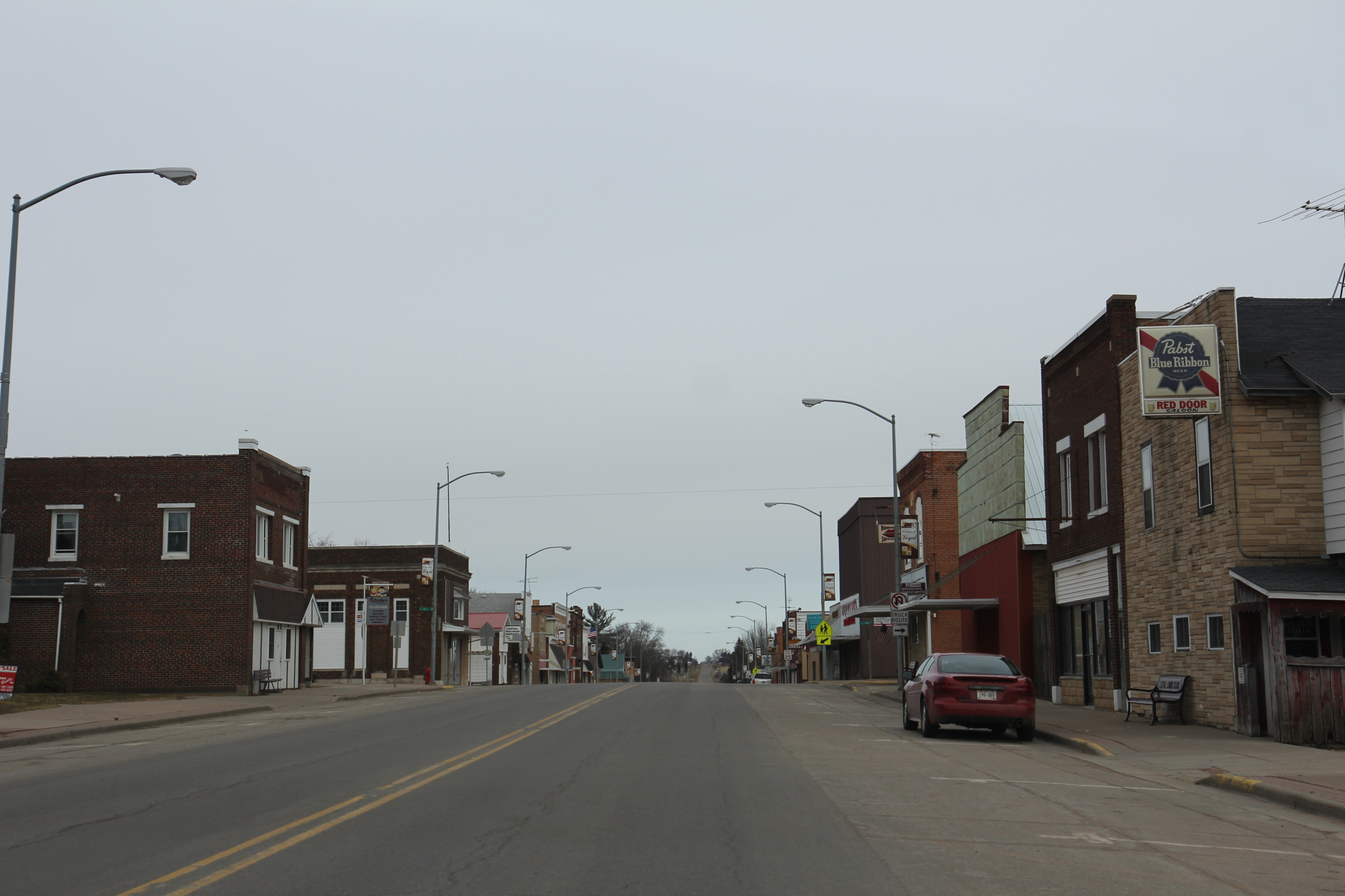 Looking north in downtown Loyal, Wisconsin on Wisconsin Highway 98.